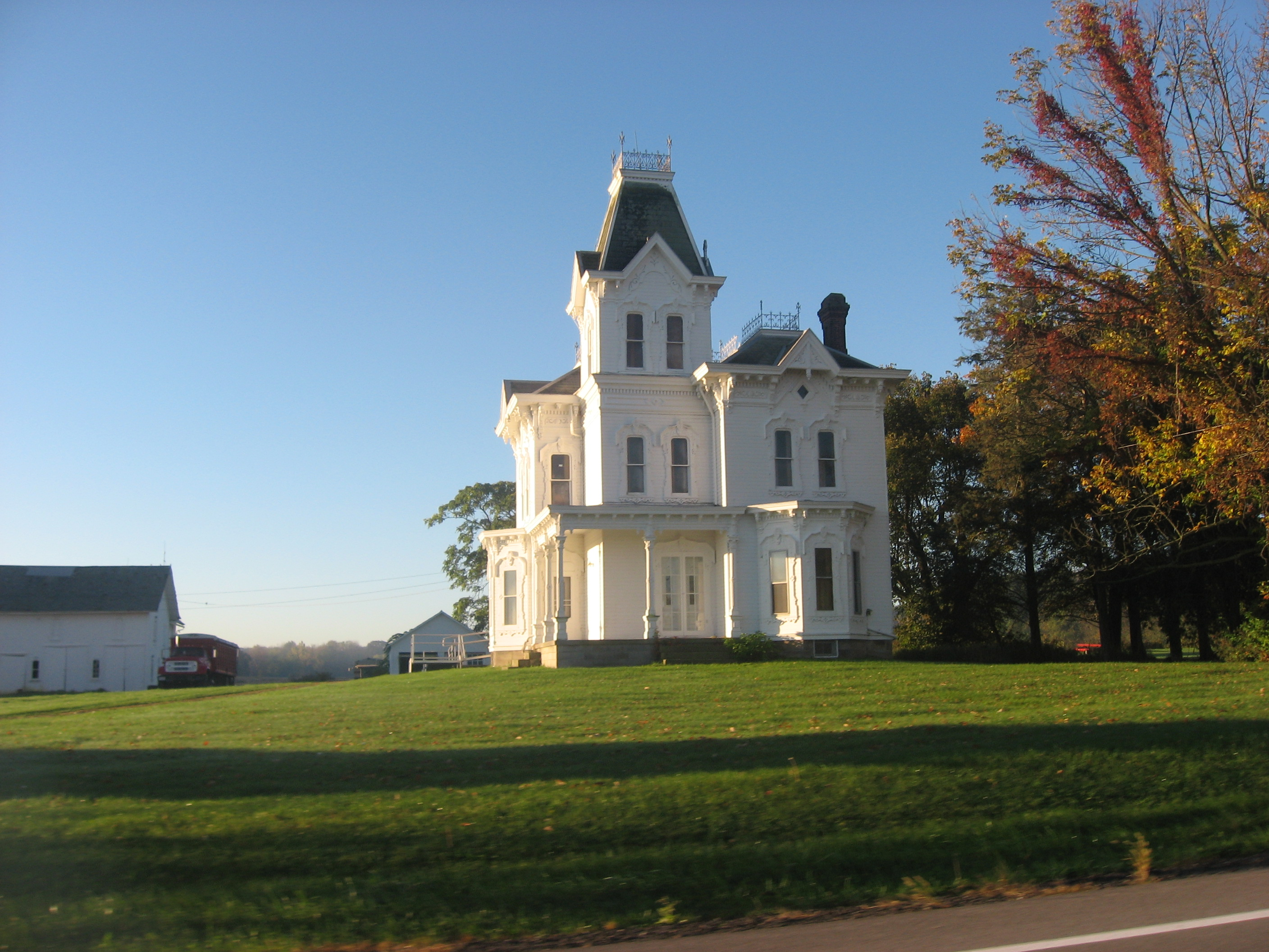 Roadside view of the Crittenden Farmhouse, located on the southern side of U.S. Route 224 immediately west of the U.S. Route 250 intersection in far eastern Ruggles Township, Ashland County, Ohio, United States. Built in 1878, it is listed on the National Register of Historic Places along with the rest of the farm complex.